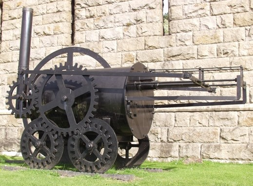 Cyfarthfa Castle Replica steam engine, Trevithick's 1804 locomotive